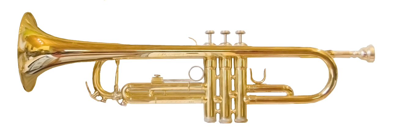 Cropped version of Trumpet 1.jpg with transparent background.